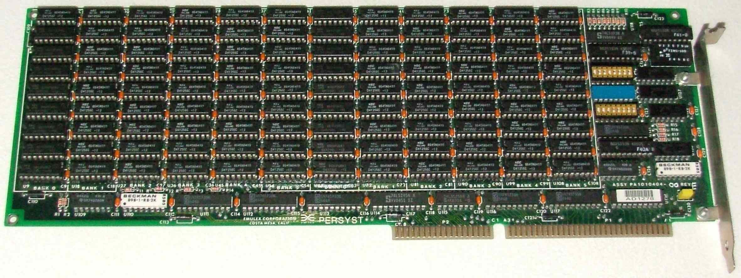 Emulex Persyst 4Mib ISA memory board, 460 g, 9x12 chips